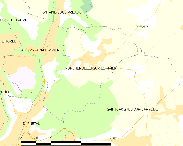 Map of French municipality Roncherolles-sur-le-Vivier